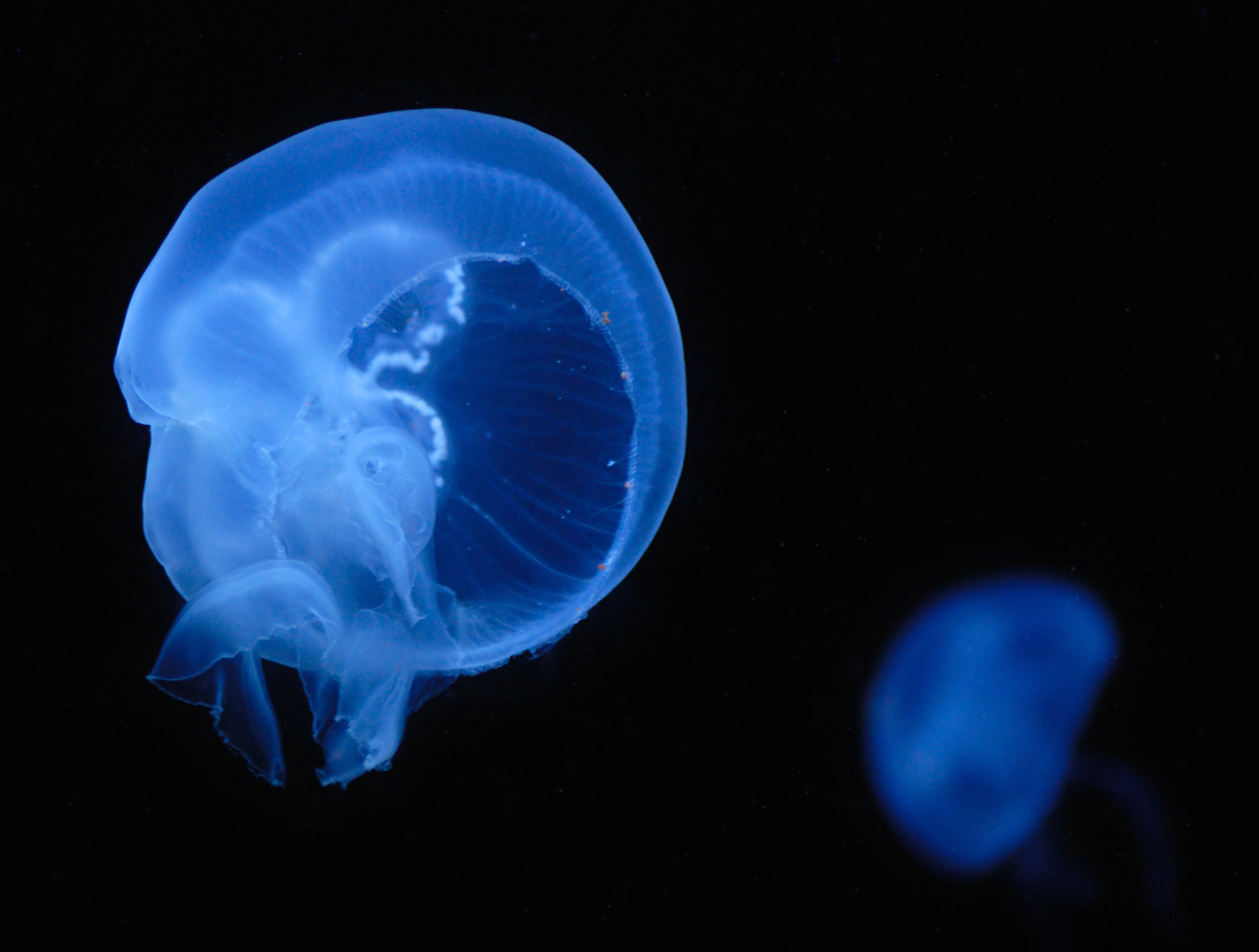 This image shows a moon jelly fish (Aurelia aurita).